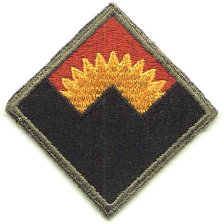 Emblem of the World War II Western Defense Command